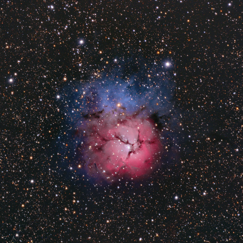 M20 with amateur telescope.